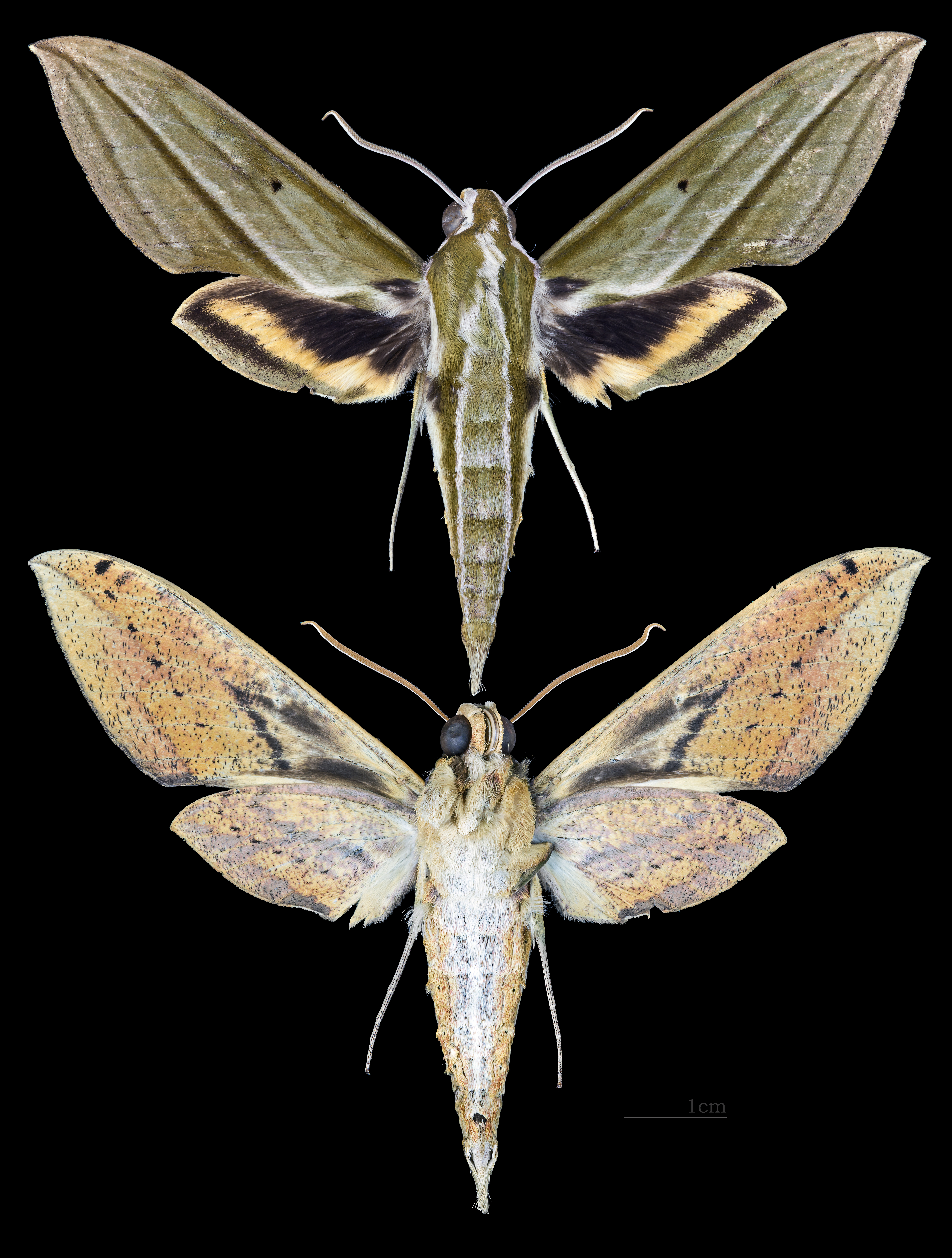 Cechenena pollux - Two views of same specimen Collection of the Mathematician Laurent Schwartz